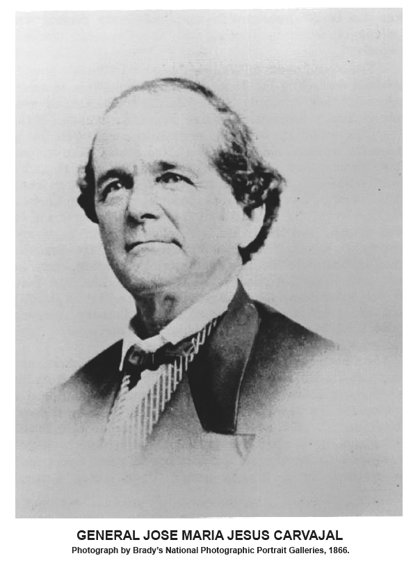 Copy-print of a carte-du-visite photograph of General Jose Maria Jesus Carvajal made by Matthew Brady in 1866.